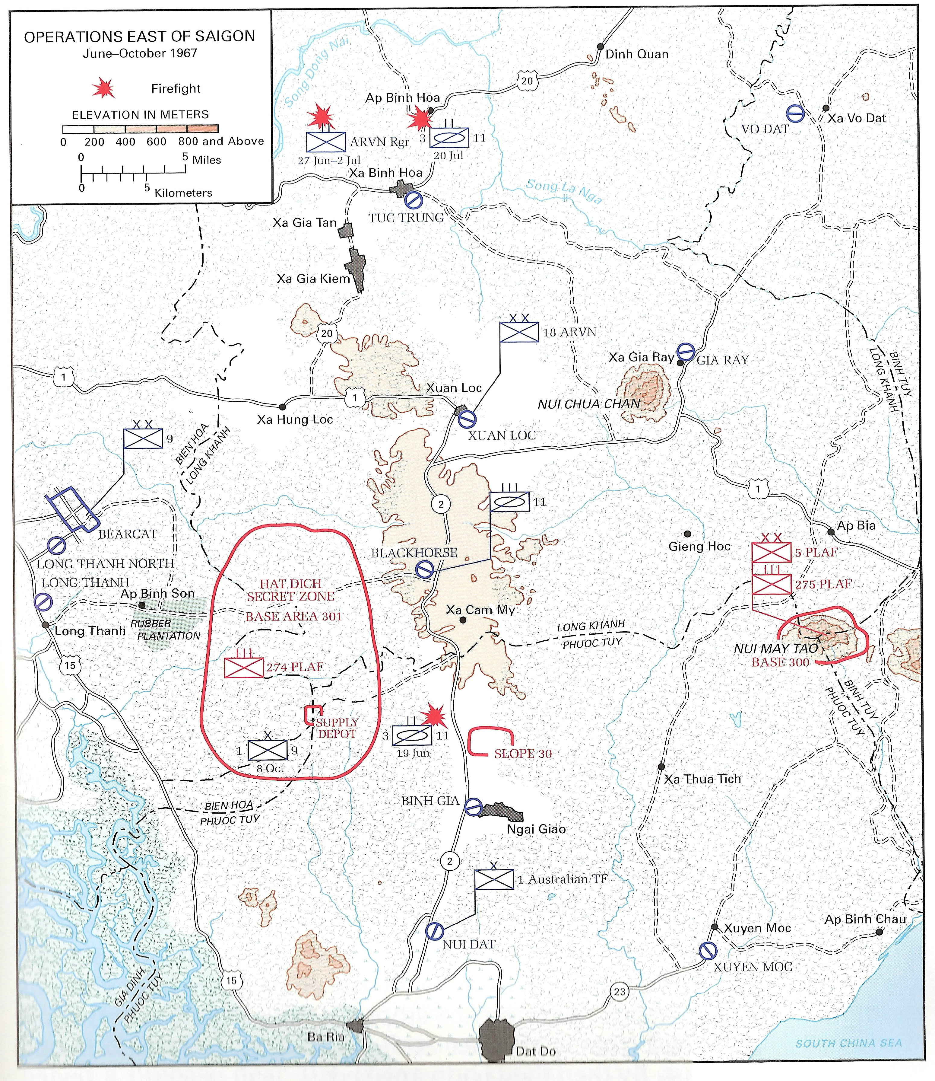 Operations east of Saigon, June to October 1967